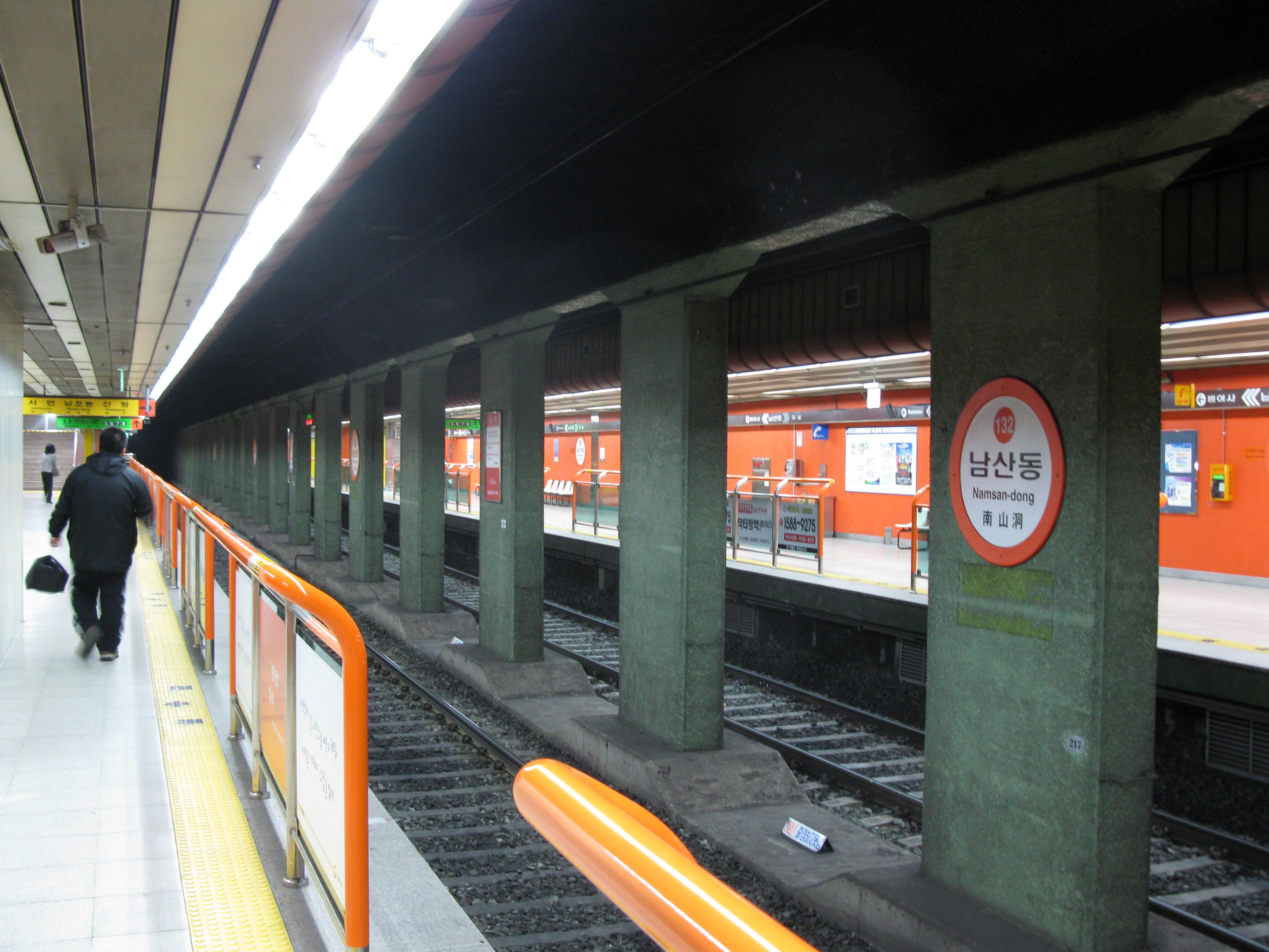 The platforms at Namsan-dong Station on the Busan Subway Line 1 in Geumjeong-gu, Busan, Republic of Korea(South Korea)